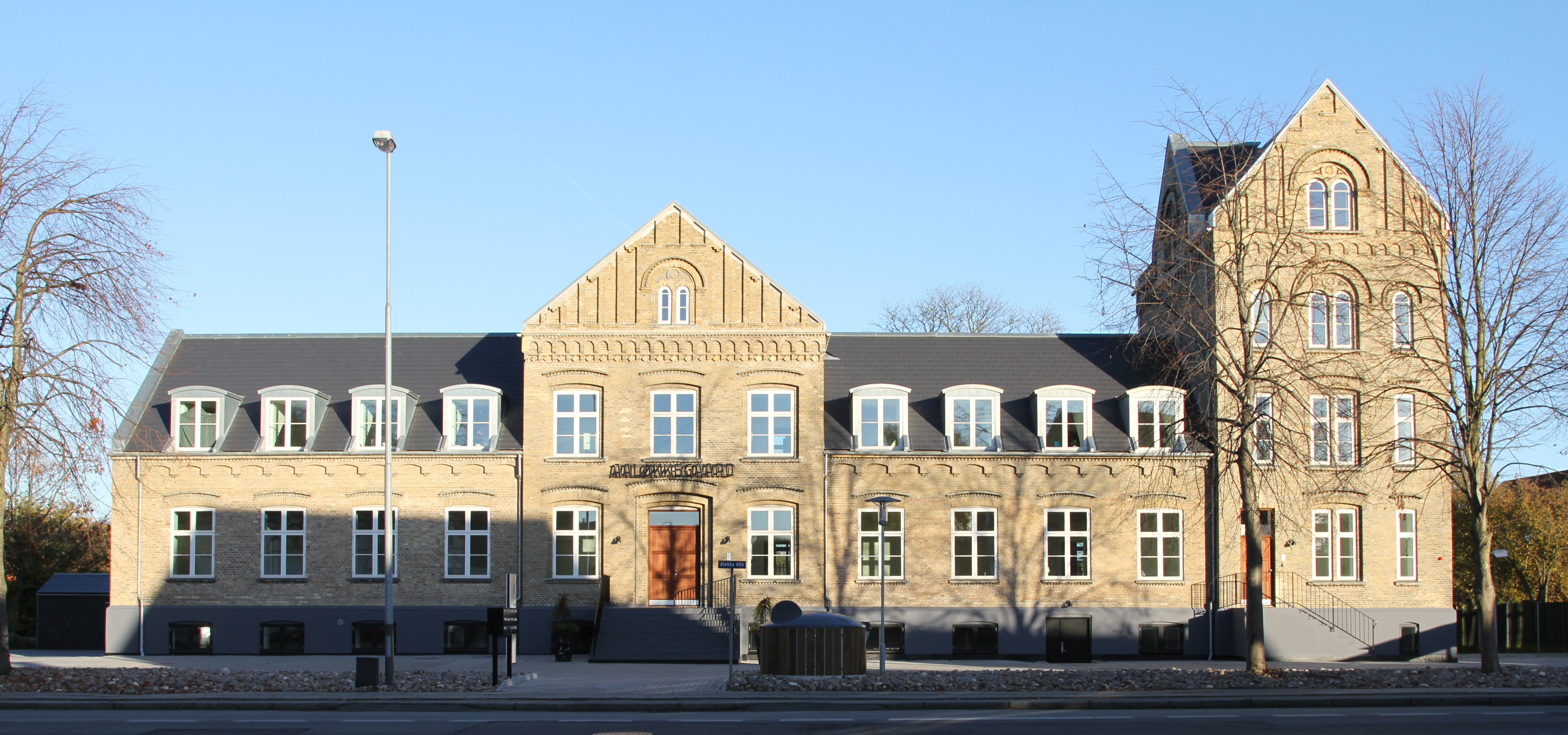 Åløkkegård in Odense, Denmark